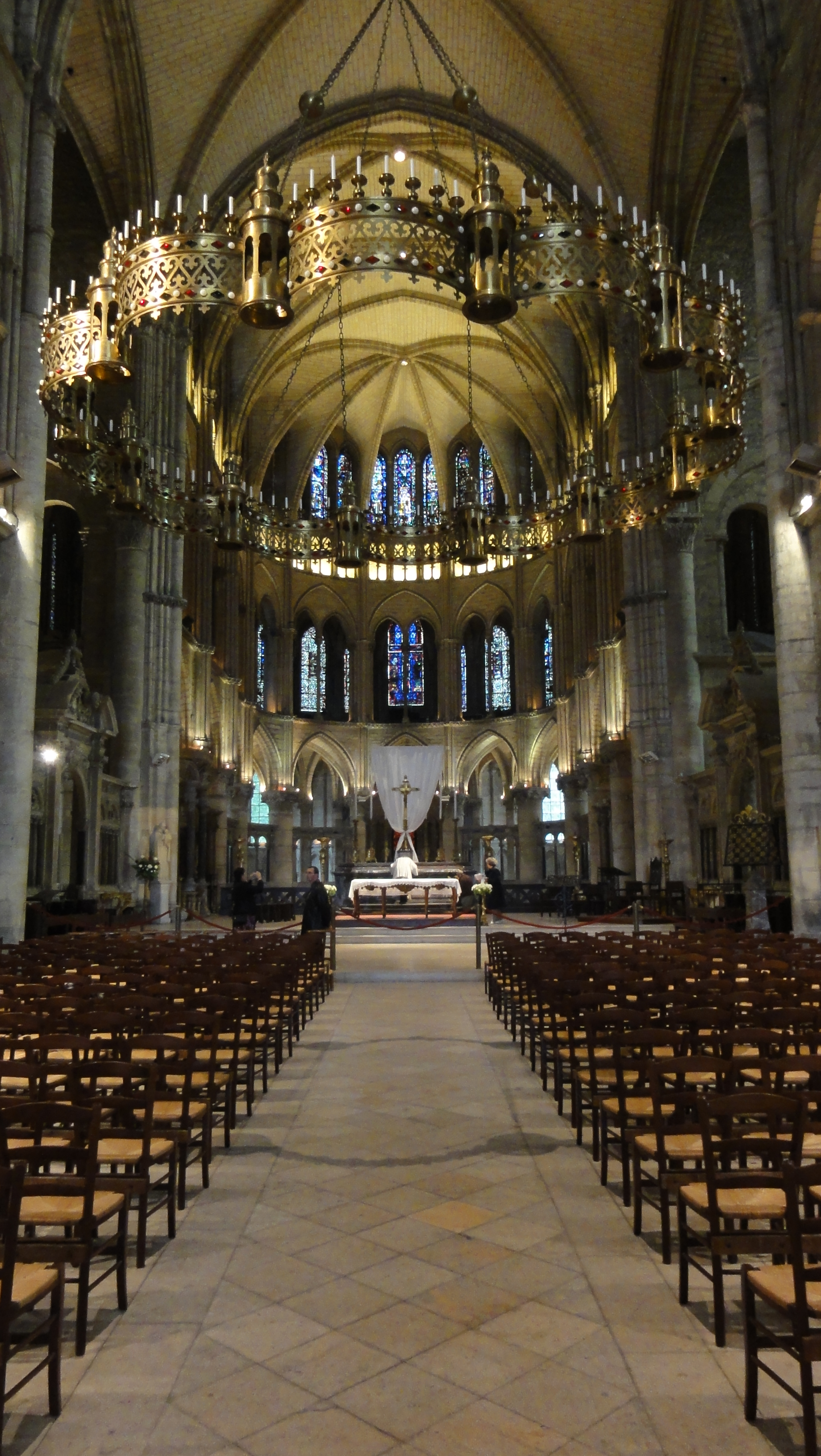 Basilique Saint-Remi de Reims